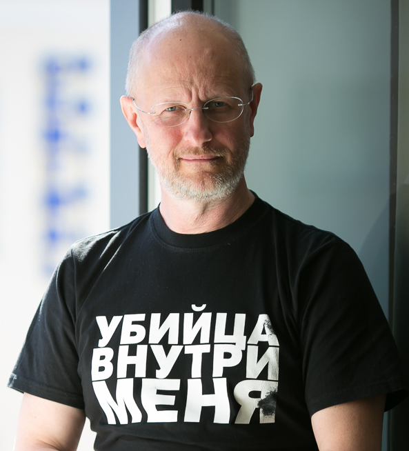 the file is the cropped version of File:Dmitry Yuryevich Puchkov Goblin 2017.jpg. The original photo is done by Sudomoin Danila.